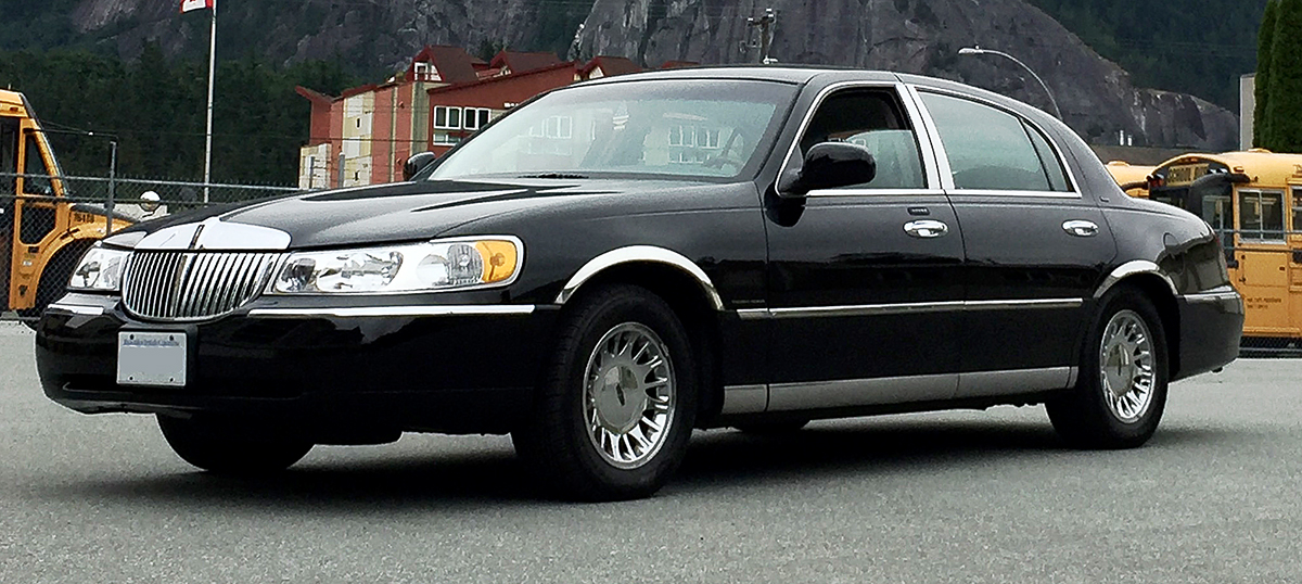 2001 Lincoln Town Car Cartier. Taken in Squamish, British Columbia, Canada